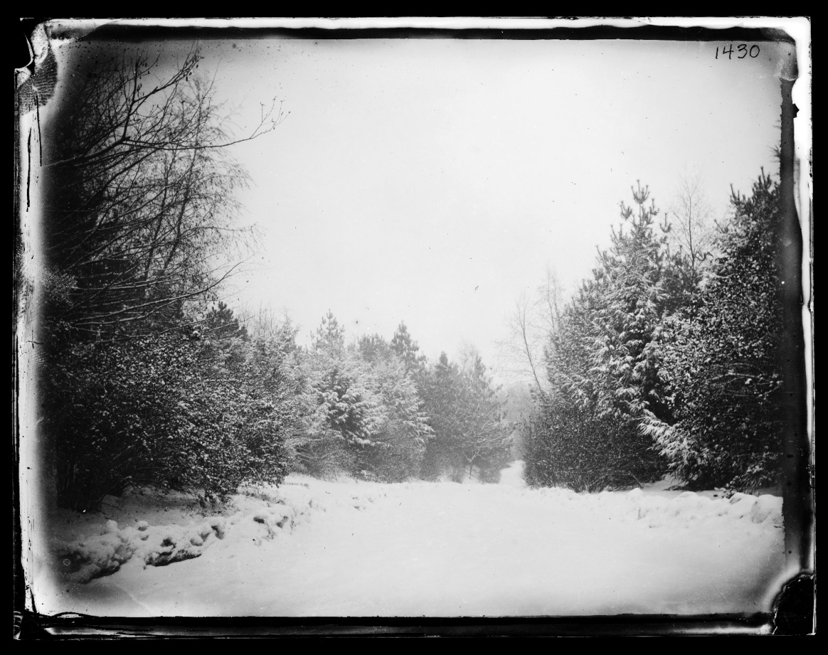 George Bradford Brainerd (American, 1845-1887). Prospect Park, Brooklyn, 1880. Wet-collodion negative. Prints, Drawings and Photographs. Brooklyn Museum/Brooklyn Public Library, Brooklyn Collection, 1996.164.2-1430. (1996.164.2-1430_glass_IMLS_SL2.jpg) Help us geotag this photograph so we can represent Brooklyn on Historypin. If you can figure out where this image should be placed: Use Suggestify to suggest a location for it. [or] Leave a comment on Flickr and link to the location on Google Maps. [or] Tweet @brooklynmuseum with the Flickr image URL, the location link to Google Maps and use the #mapBK hashtag. More about #mapBK